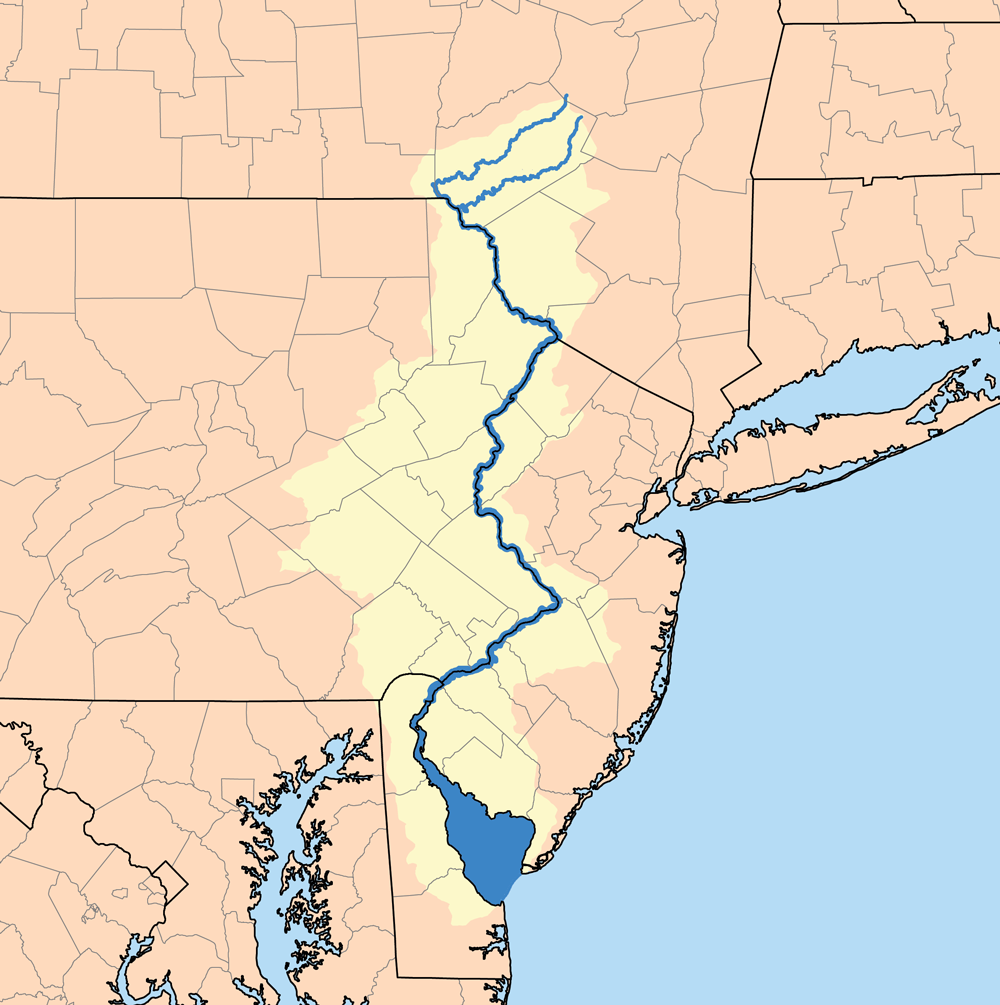 This is a map of the Delaware River Watershed. I, Karl Musser, created it based on USGS data.